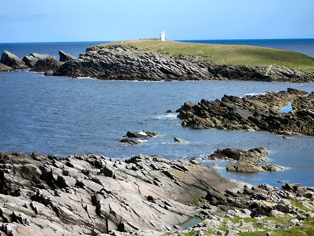 Eastern tip of Mousa. Taken from the nearest point on the path around the island; access is restricted to protect the wildlife.